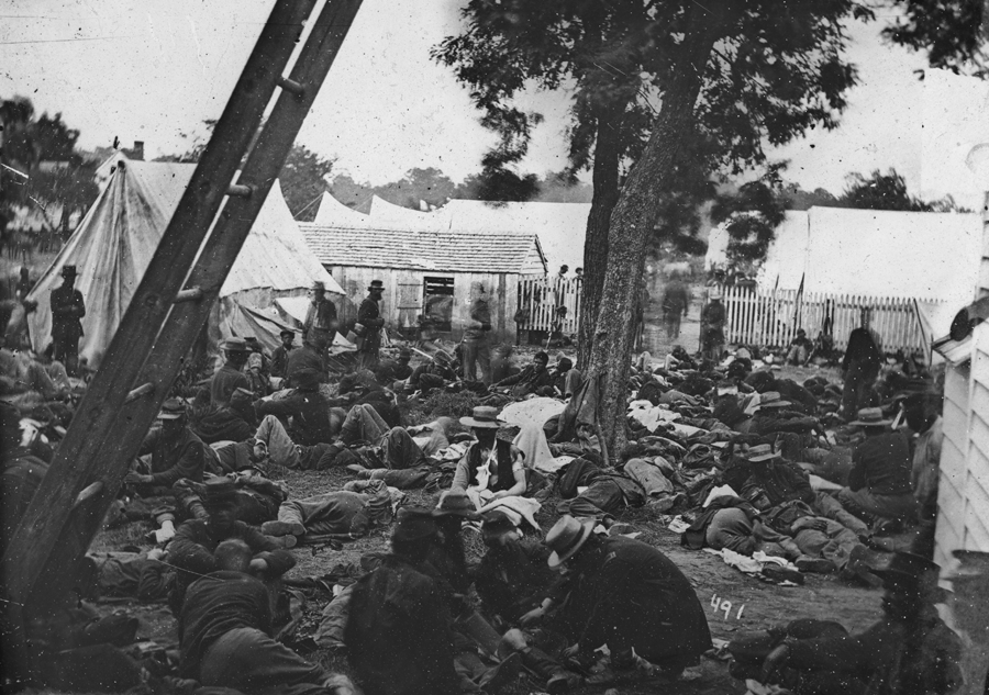 Savage Station, Va. Field hospital after the battle of June 27. Photographed June 30, 1862.